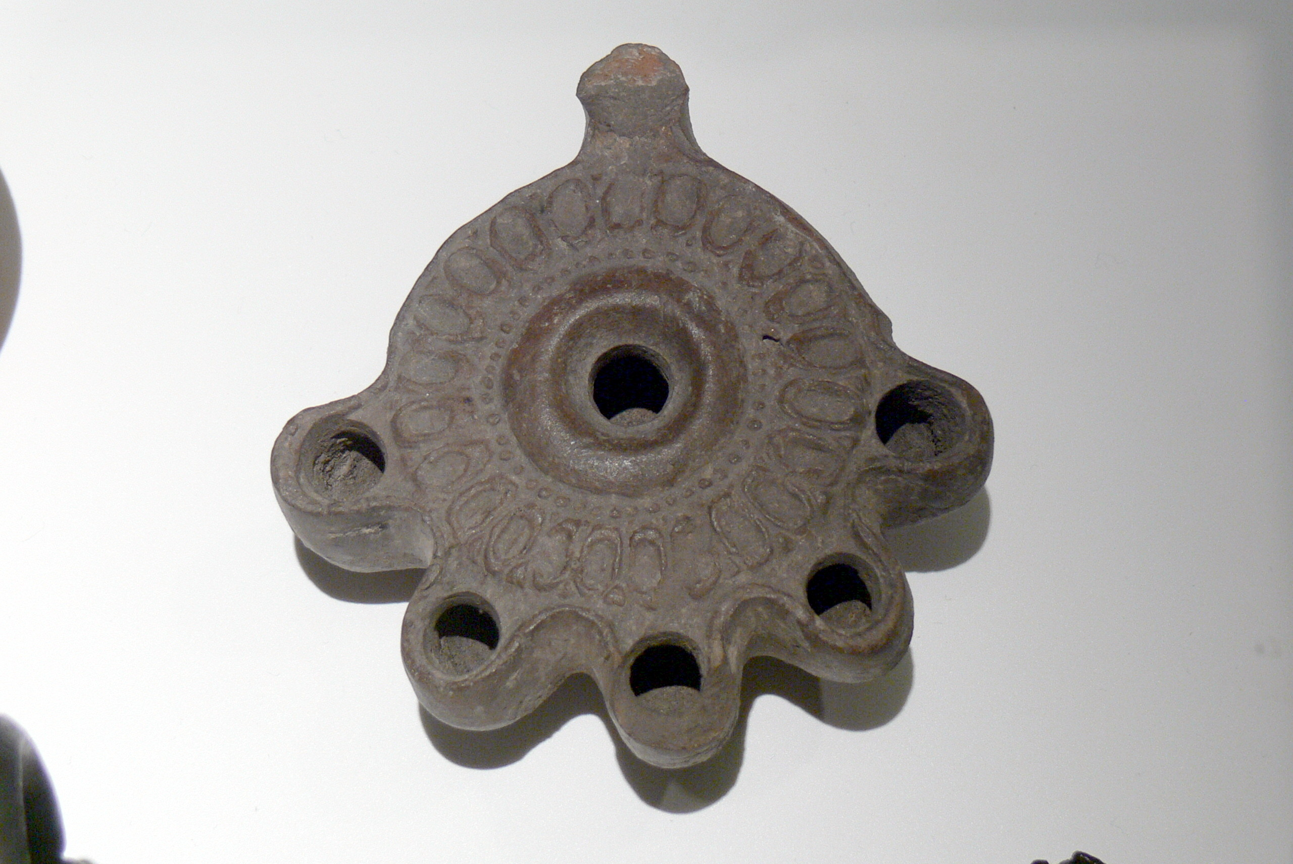 Roman Museum, Vienna. Ancient Roman oil lamp.